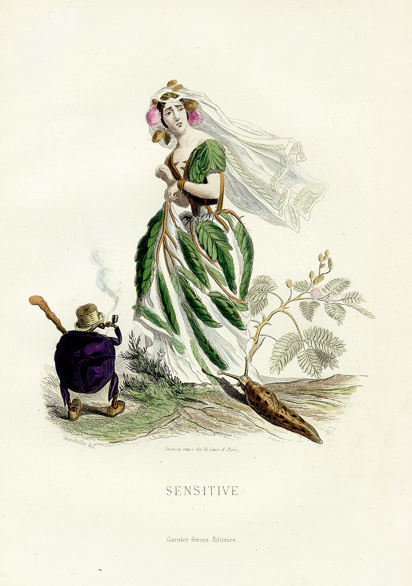 Illustration "Sensitive" (mimosa sensitive) from "Fleurs Animées" by the french artist Jean Ignace Isidore Gérard Grandville (1803-1847).